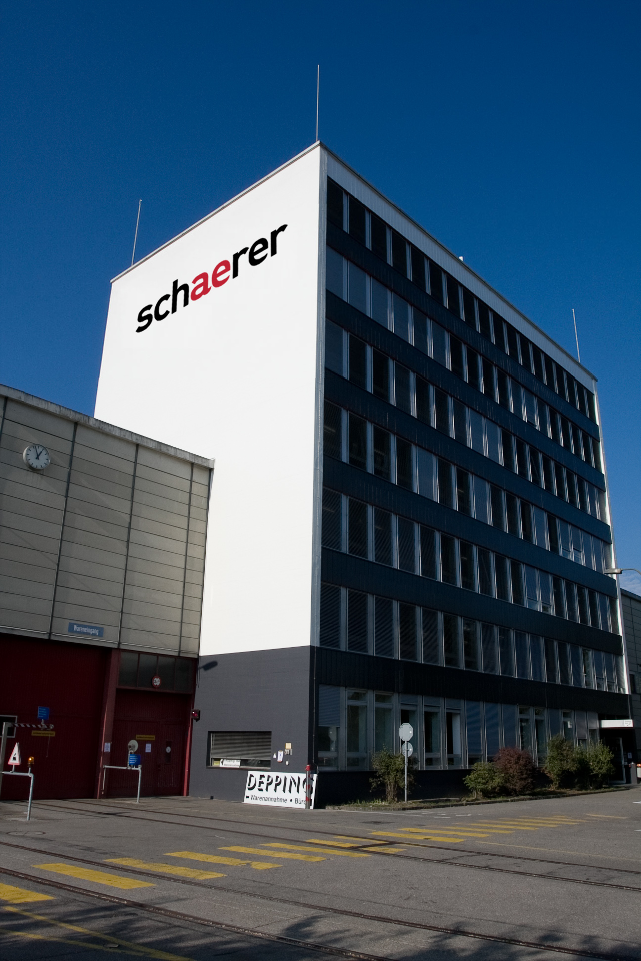 Schaerer headquarter in Zuchwil